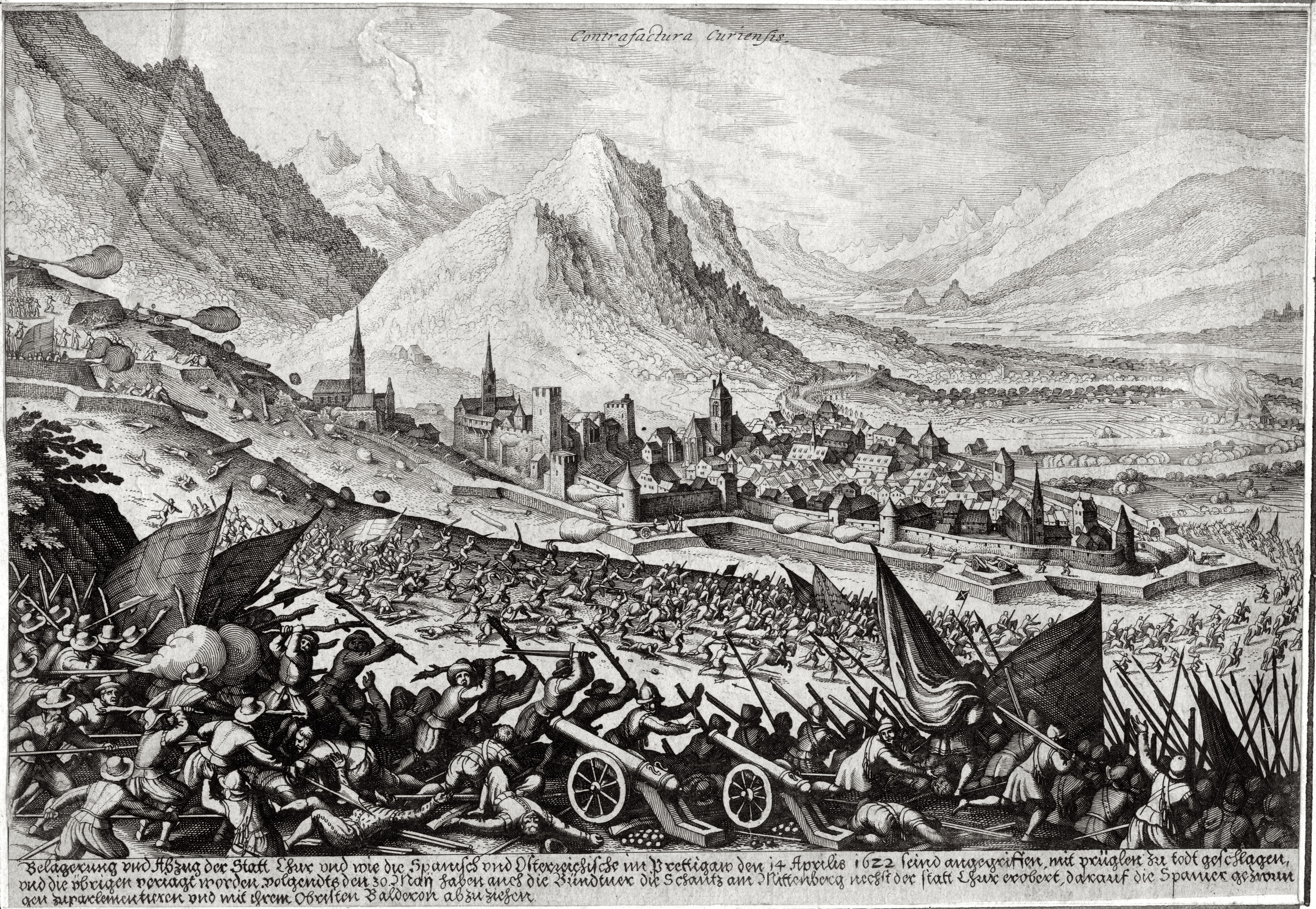 Battle between Austrian forces and rebells from Prättigau near Chur 14. April 1622.